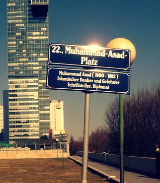 A square named after Muslim scholar and thinker Muhammad Asad.